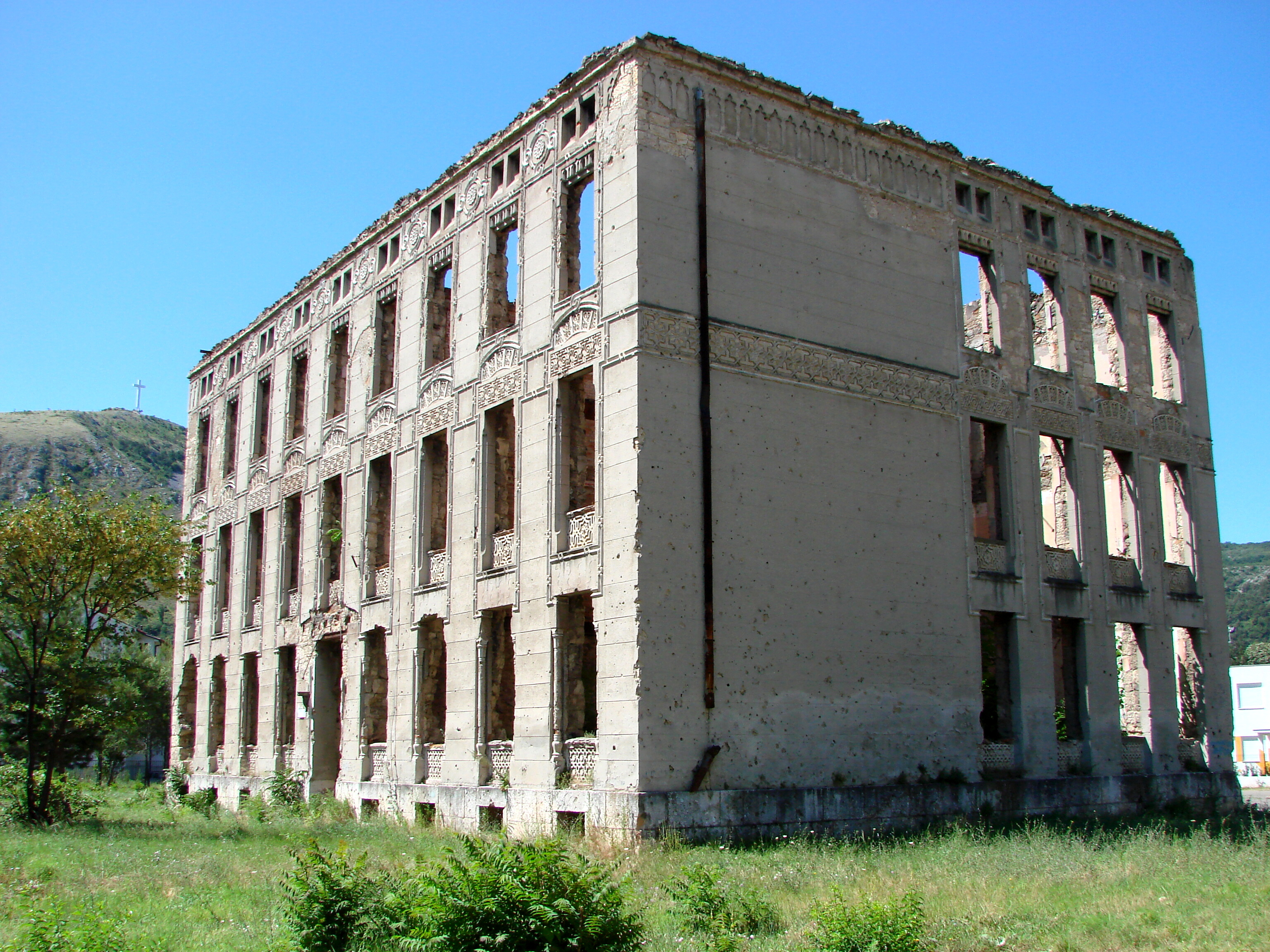 War-ruined building, Mostar, Bosnia and Herzegovina. July 2007.